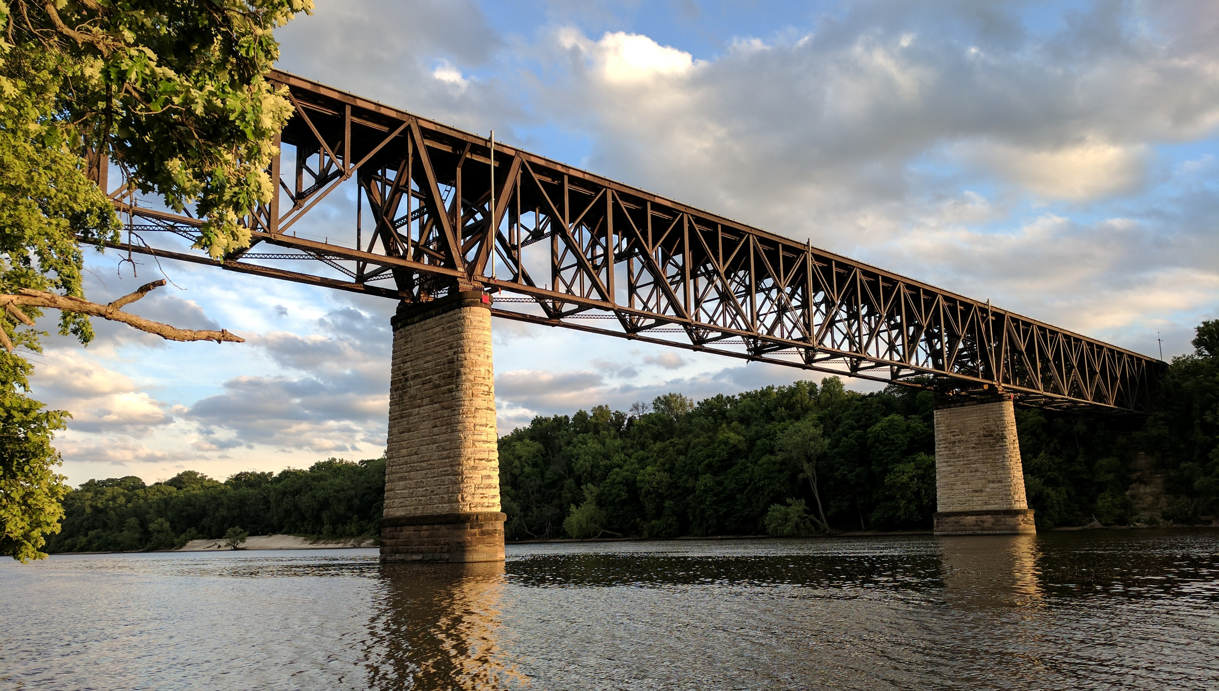 The Short Line Bridge from the Prospect Park side of the Mississippi River.